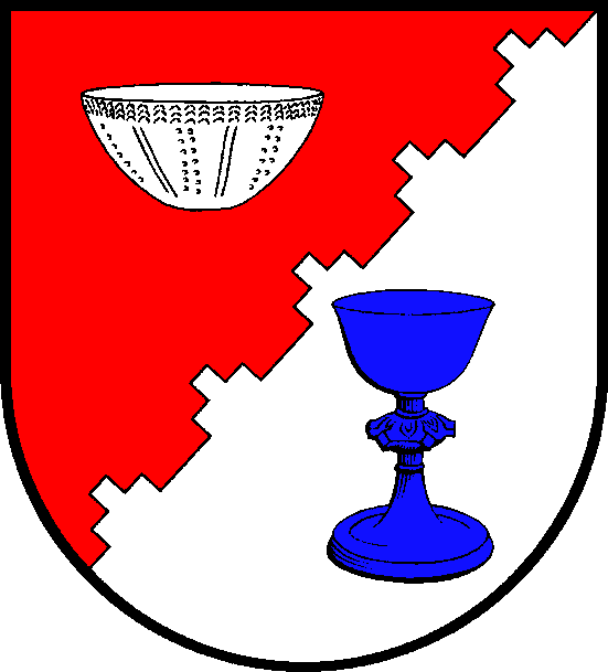 Coat of arms of the municipality Bovenau in Schleswig-Holstein, Germany.